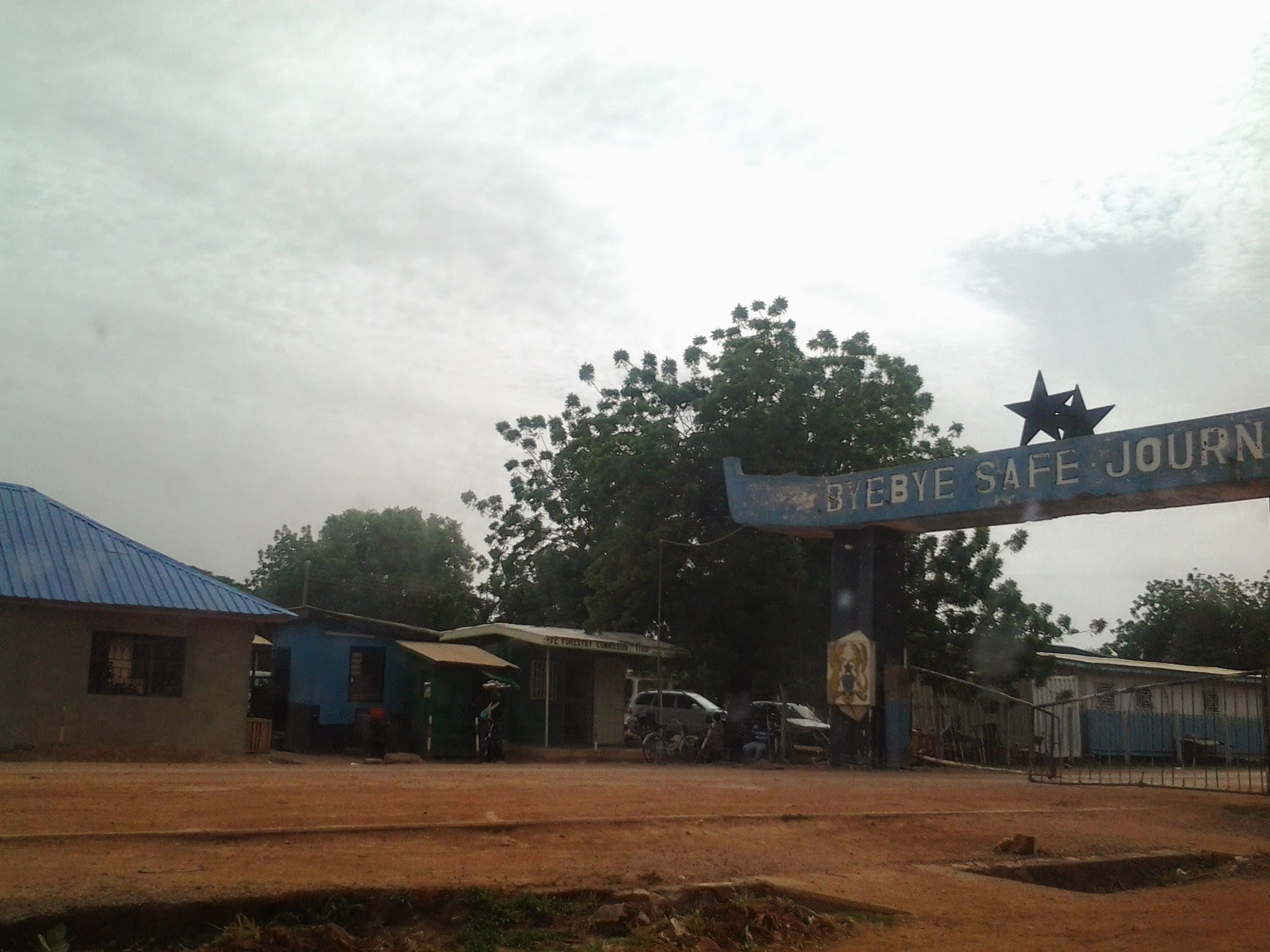 This is the passage-way into Burkina Faso